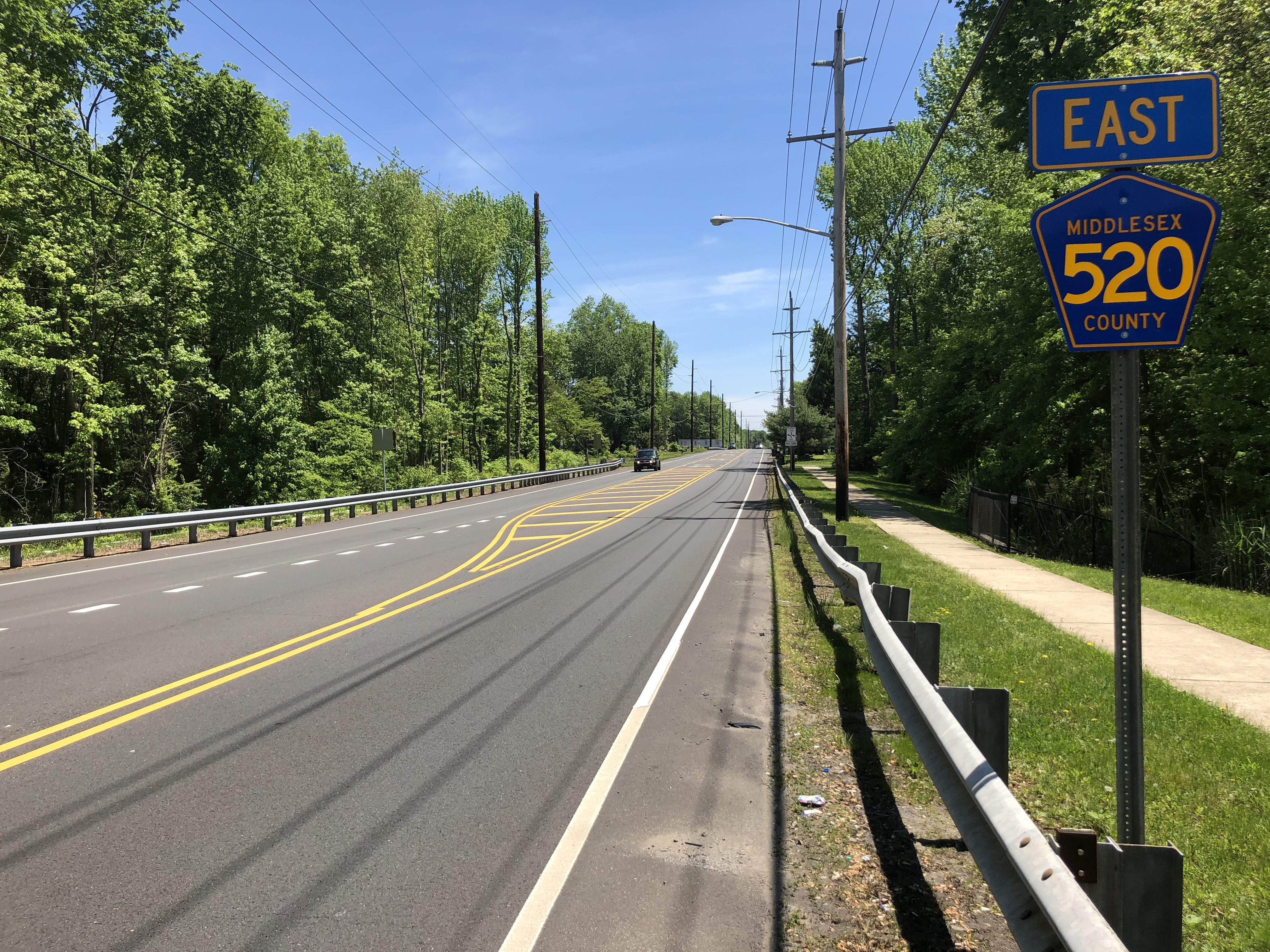 View east along Middlesex County Route 520 (Texas Road) at Middlesex County Route 527 (Old Bridge-Englishtown Road) in Old Bridge Township, Middlesex County, New Jersey